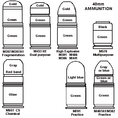 40mm ammunition line drawing (converted to PNG from GIF)